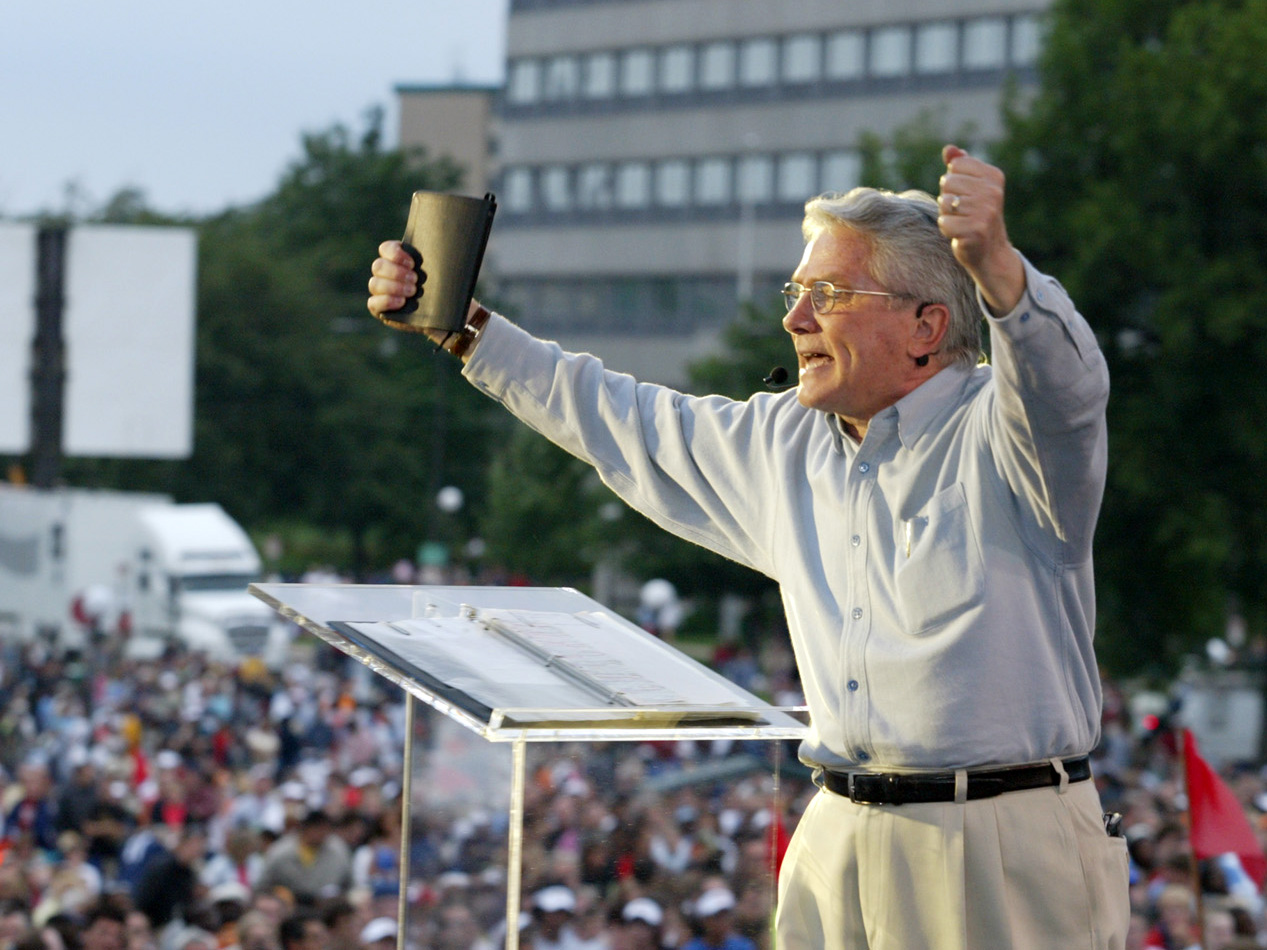 Luis Palau predicando a multitudes